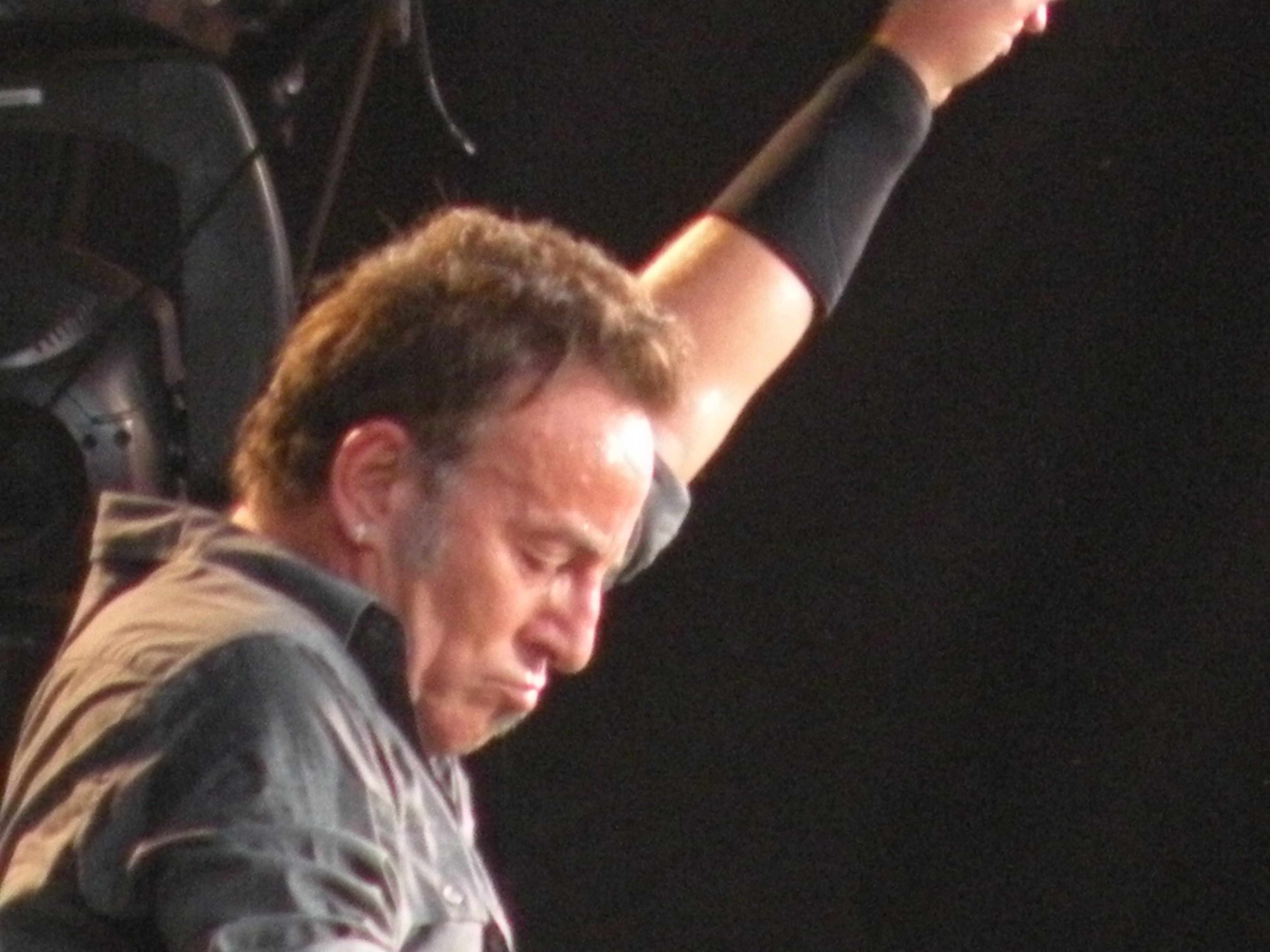 Springsteen - Hyde Park 2009